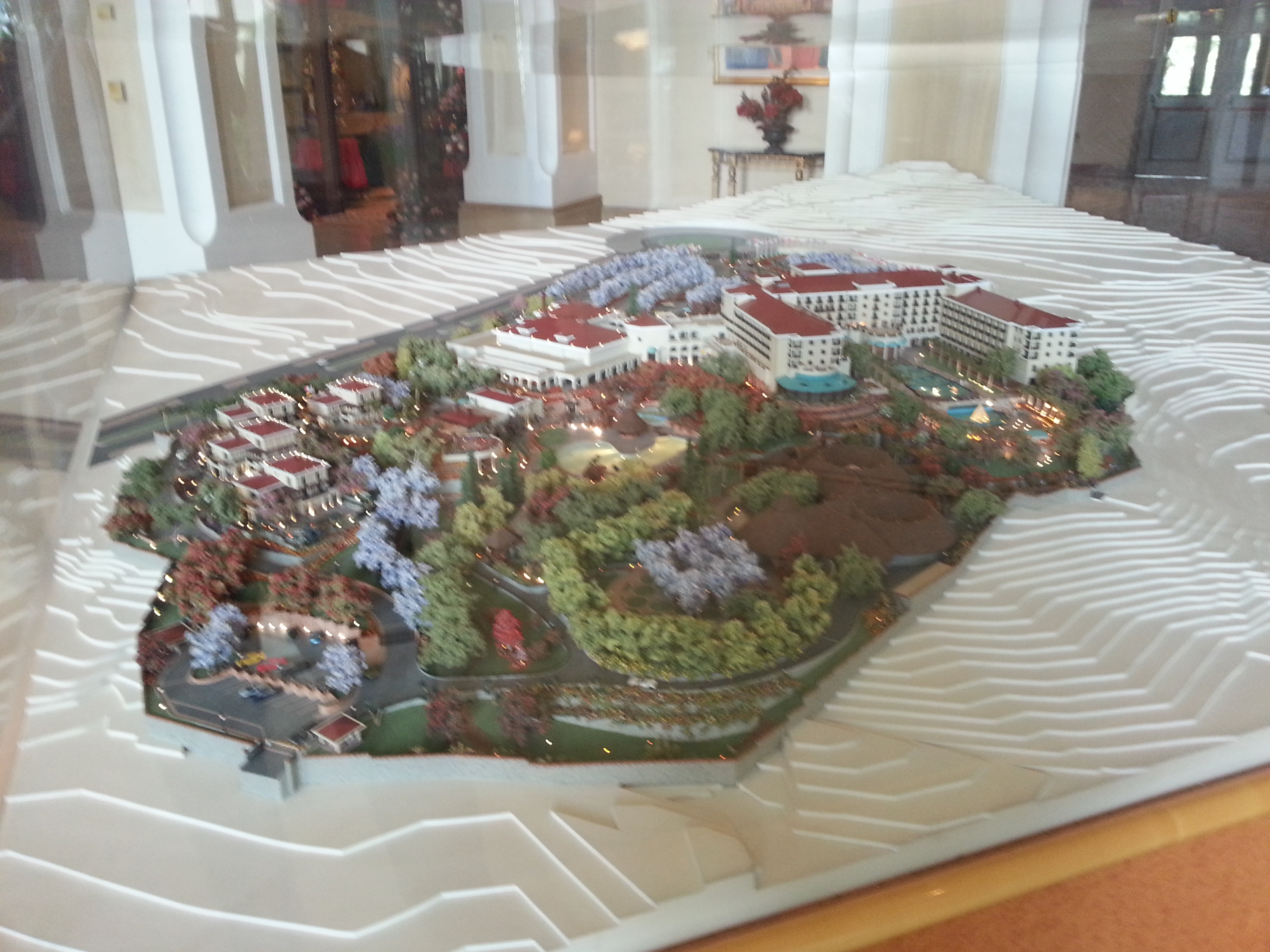 Hotels in Addis Ababa